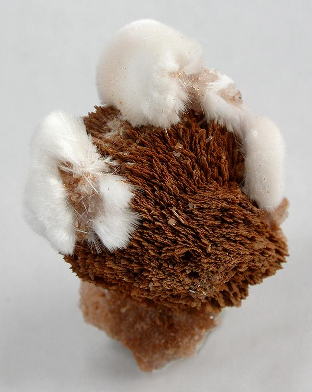 Inesite, Xonotlite Locality: Wessels Mine (Wessel's Mine), Hotazel, Kalahari manganese fields, Northern Cape Province, South Africa (Locality at ) Size: miniature, 3.5 x 2.7 x 2.6 cm Xonotlite on Inesite Beautiful 1 cm clusters of acicular xonotlite, perched on contrasting ruddy brown inesite. It could be tobermorite. But, I have not had it analyzed so am erring on the side of caution.